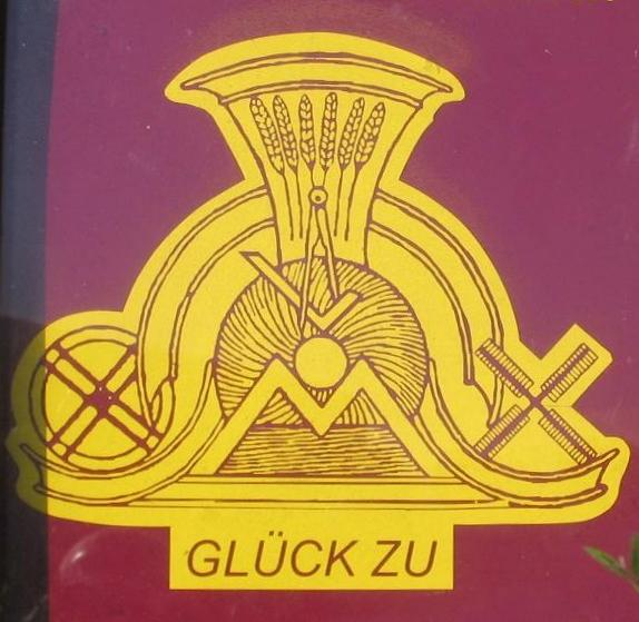 Post mill in Berlin-Marzahn, new built in 1993. Table with Glück zu - greeting habit in Germany